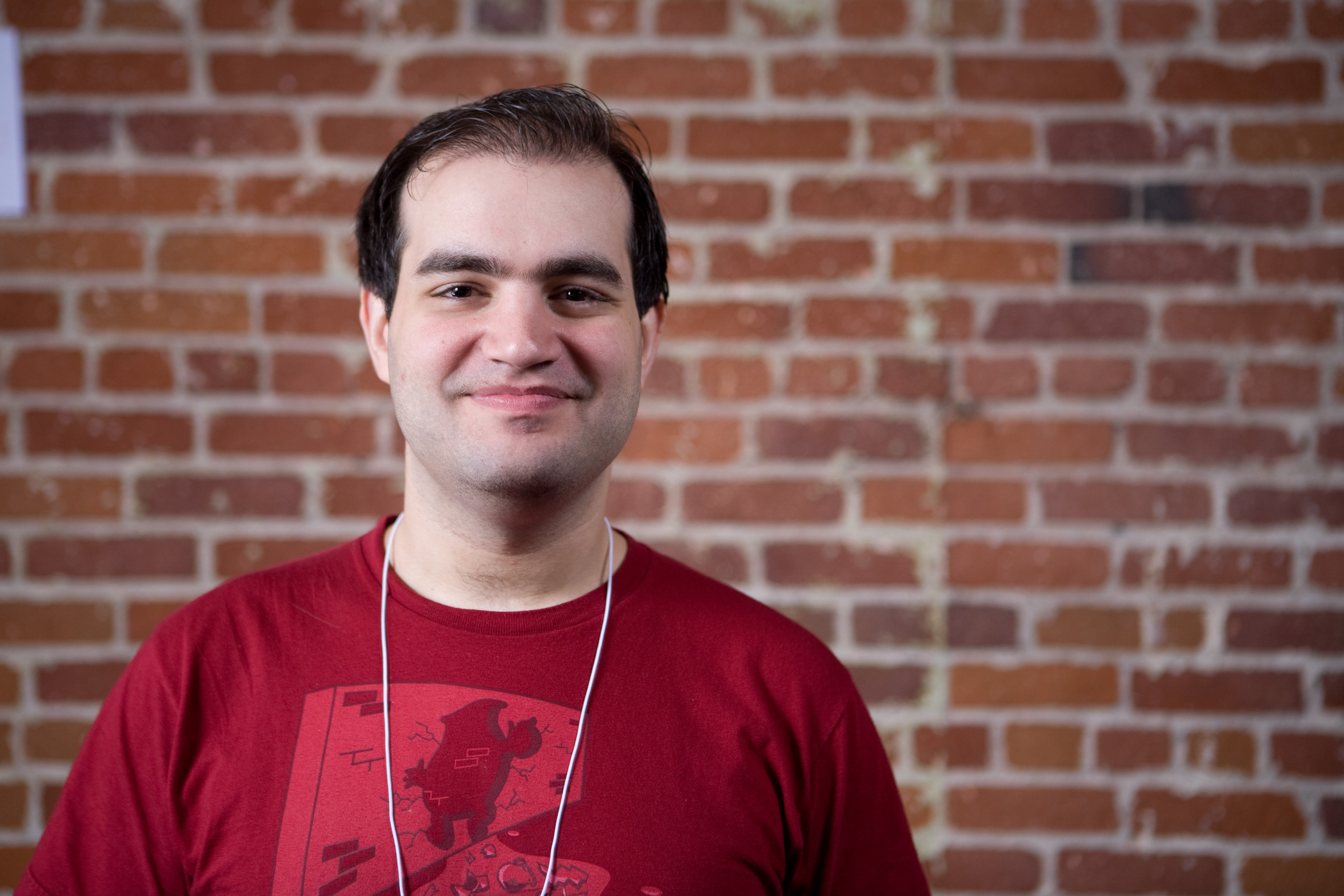 This photo is licensed under a Creative Commons license. If you use this photo within the terms of the license or make special arrangements to use the photo, please list the photo credit as "Dave Bullock / eecue" and link the credit to